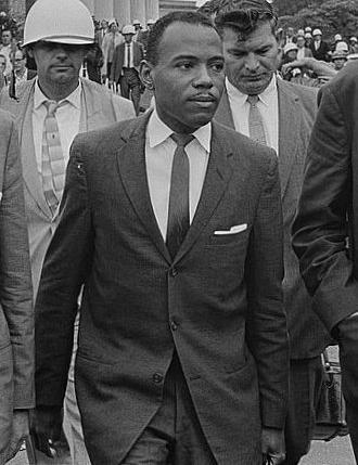 James Meredith walking to class at University of Mississippi, accompanied by U.S. marshals. Cropped image from this file.